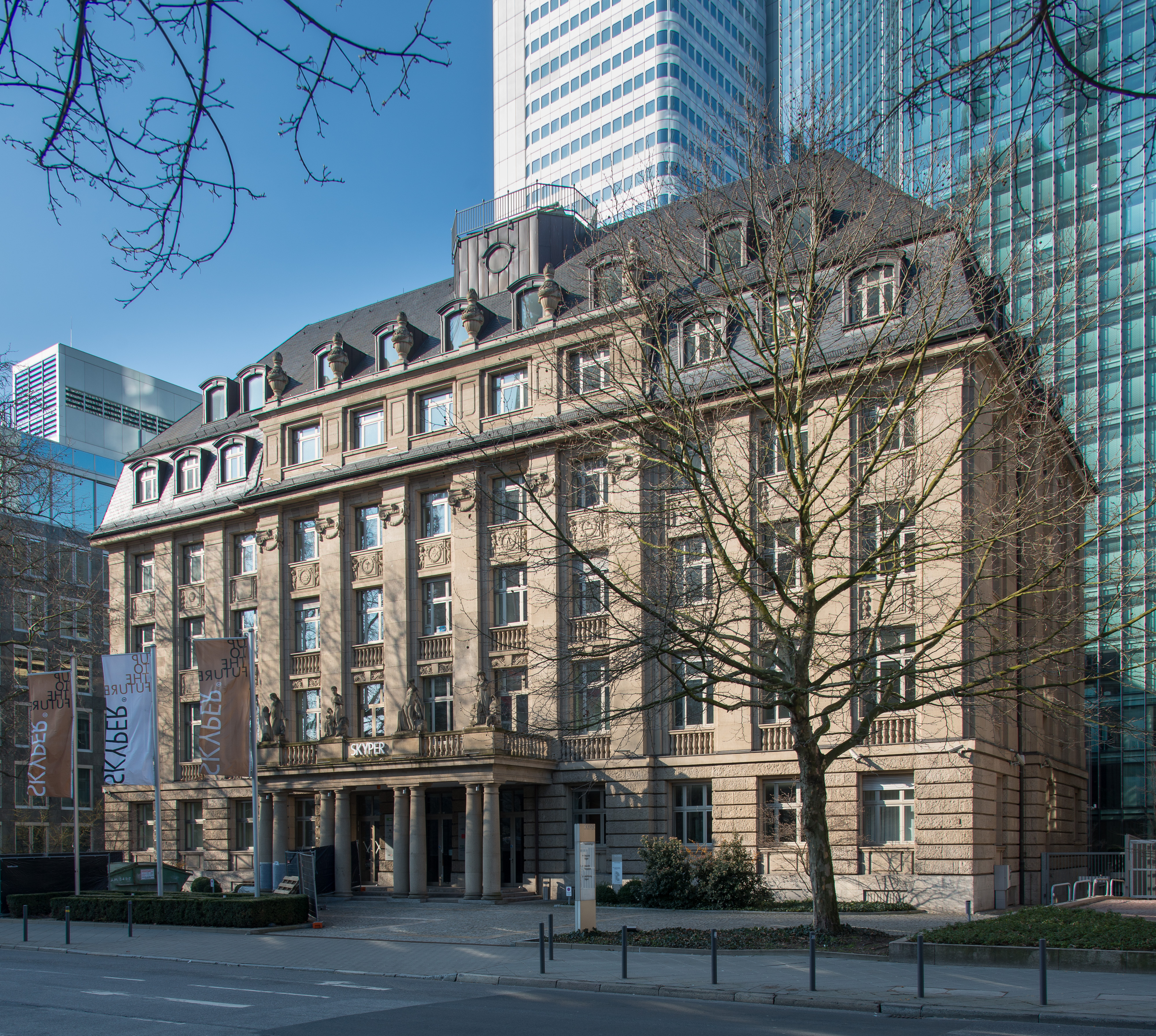 Frankfurt am Main, Taunusanlage 1 (Taunusstraße 2). Cultural monument of the city from 1899.